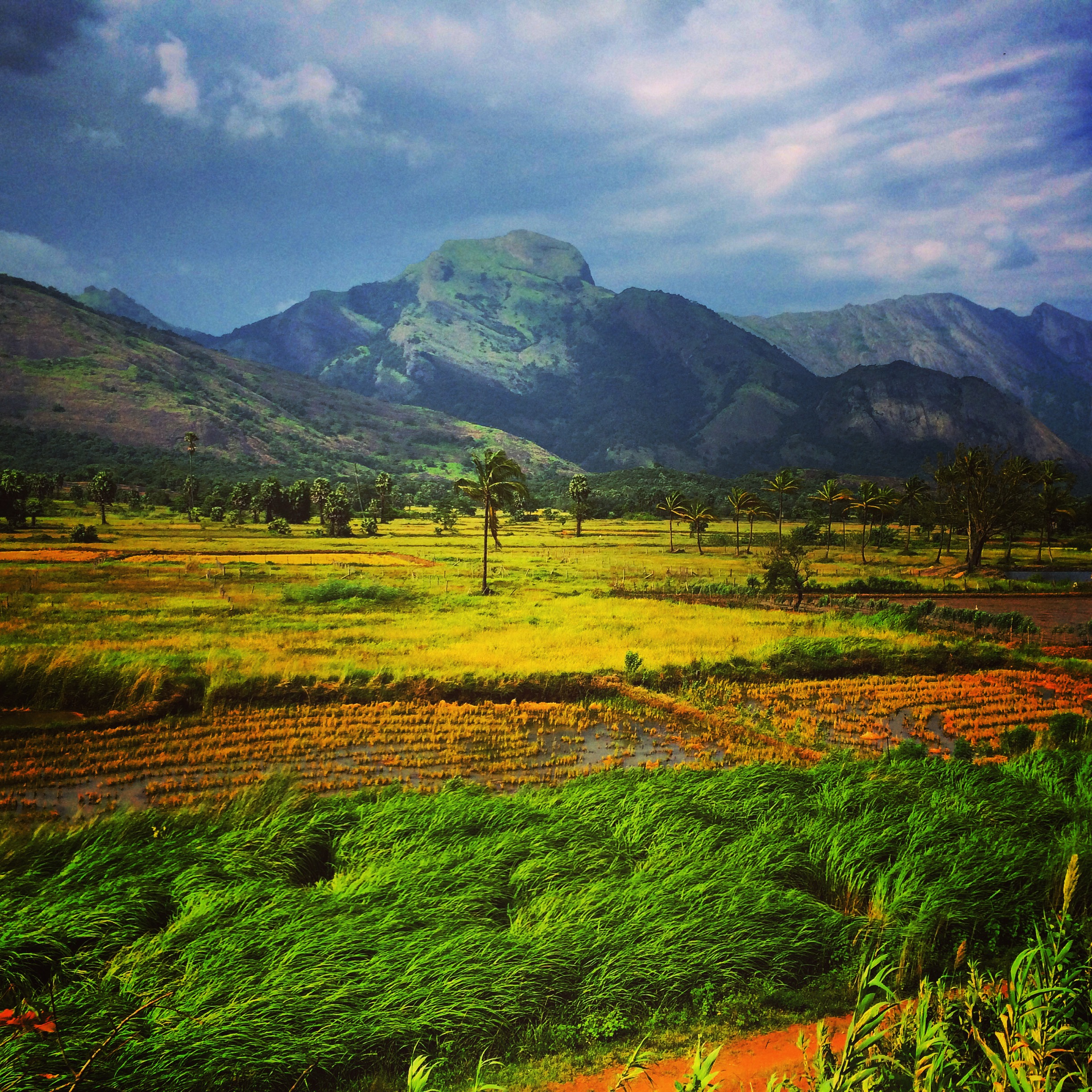 Fields of Palghat with western ghats in the background